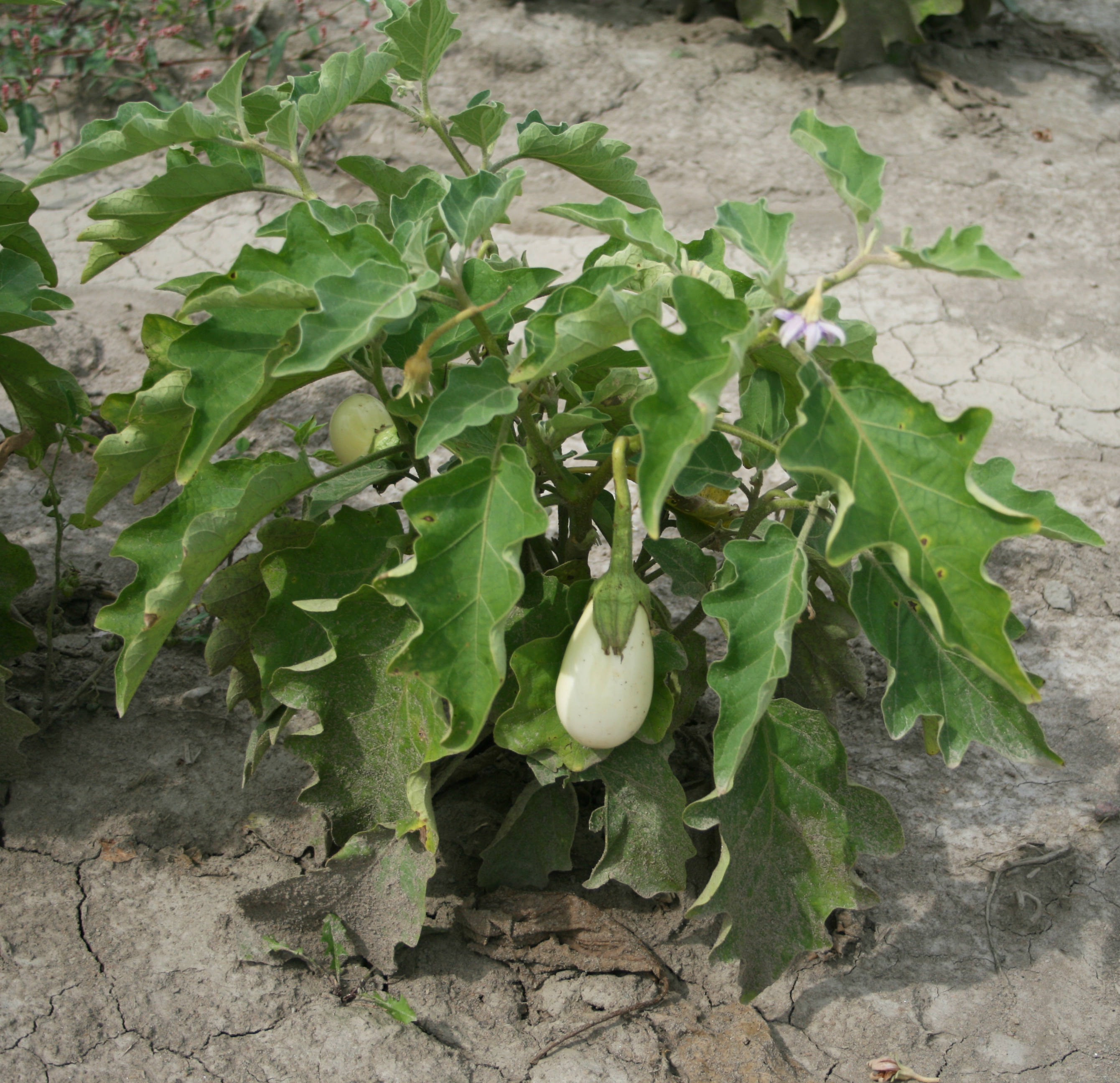 A white eggplant plant on an eggplant field.